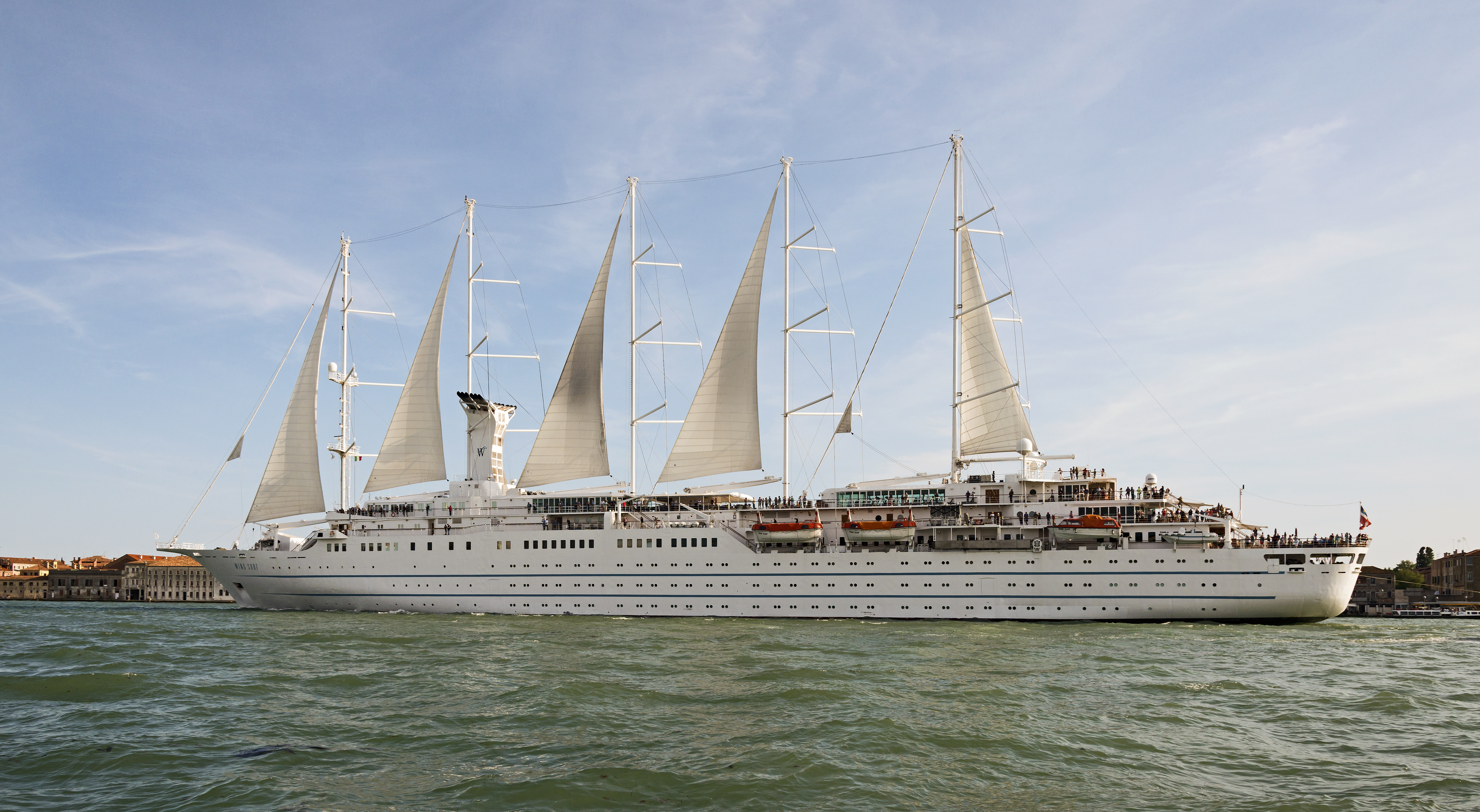 Wind Surf : Cruise ship, In the Giudecca Canal in Venice.